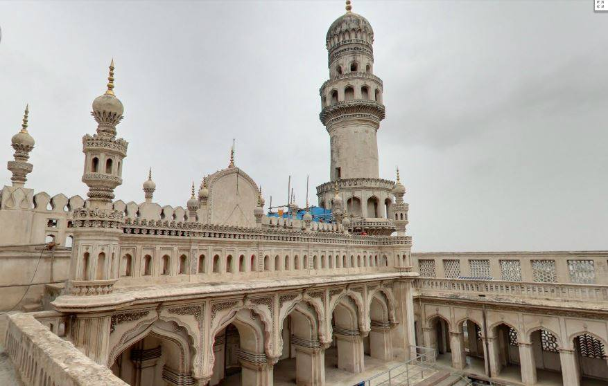 Mosque on Second Floor